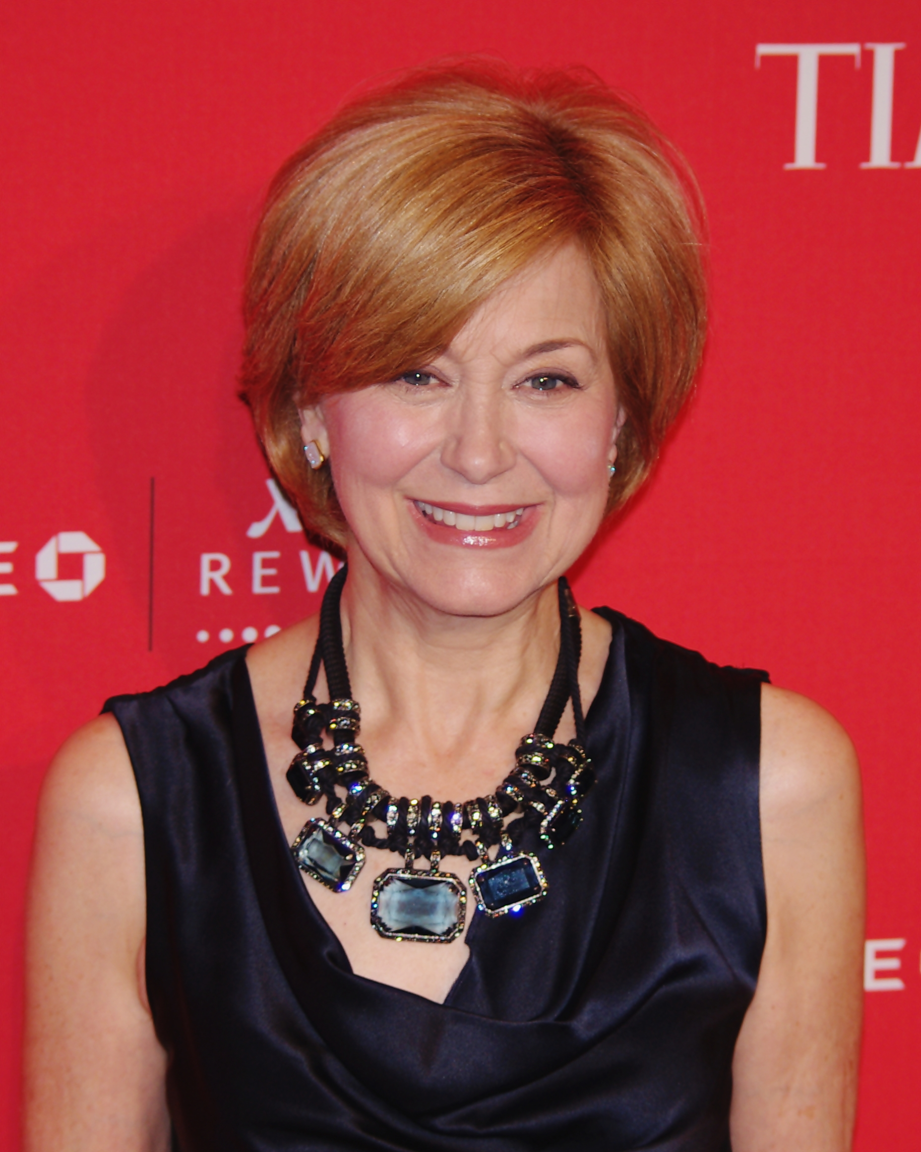 Jane Pauley at the 2012 Time 100 gala.